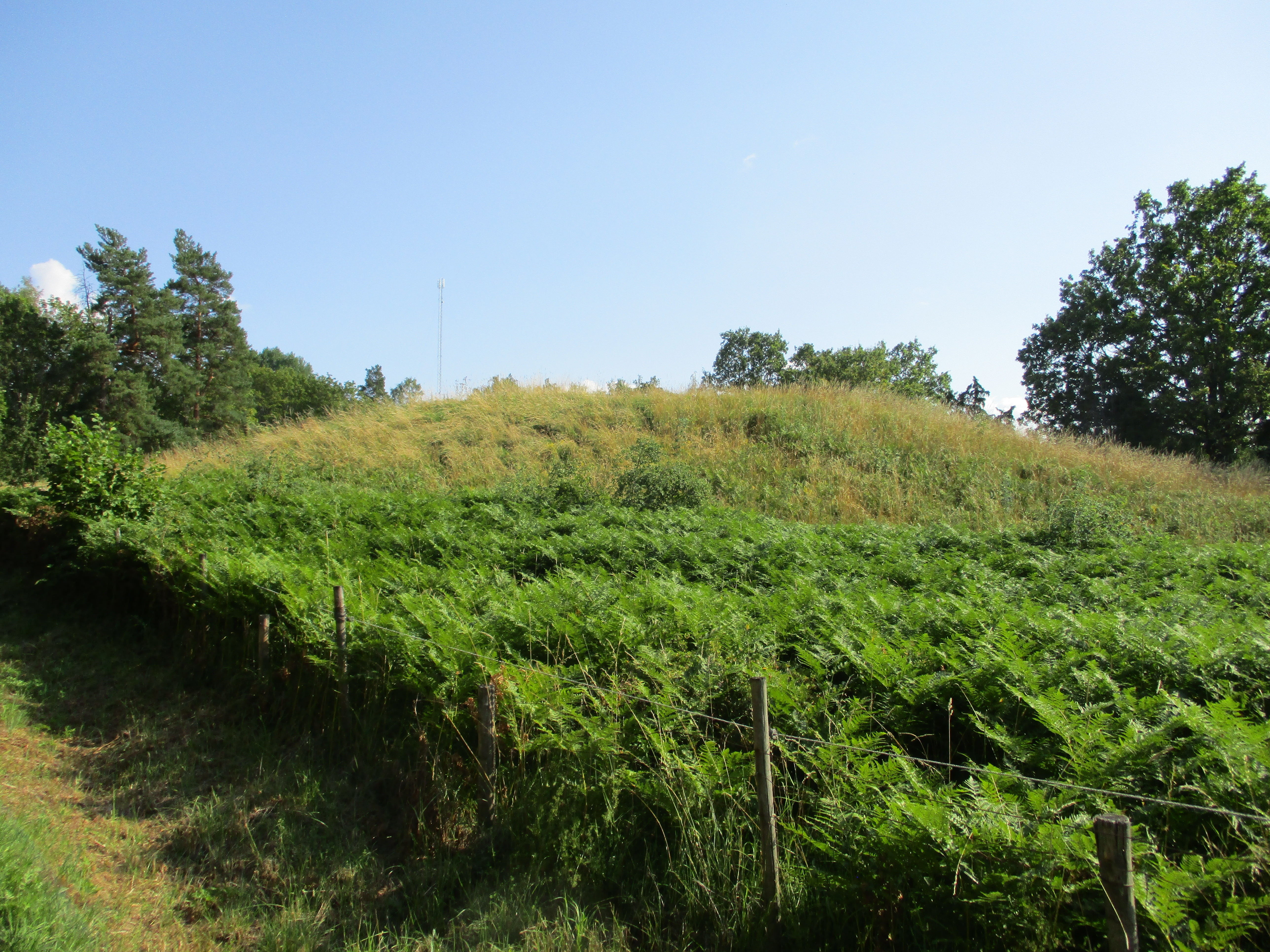 The Ingold Tumulus Ingjaldshögen at Kråktorp, Fogdön, traditionally (but not reliably) the alleged grave of Semi-legendary King Ingold IllreadyPlace: Kråktorpsvägen, Fogdön, Strängnäs, Sweden